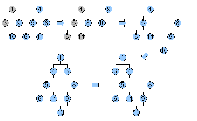 Last steps to initialize a min height biased leftist tree. Each line is the queue after the first two items in the previous line have been merged.